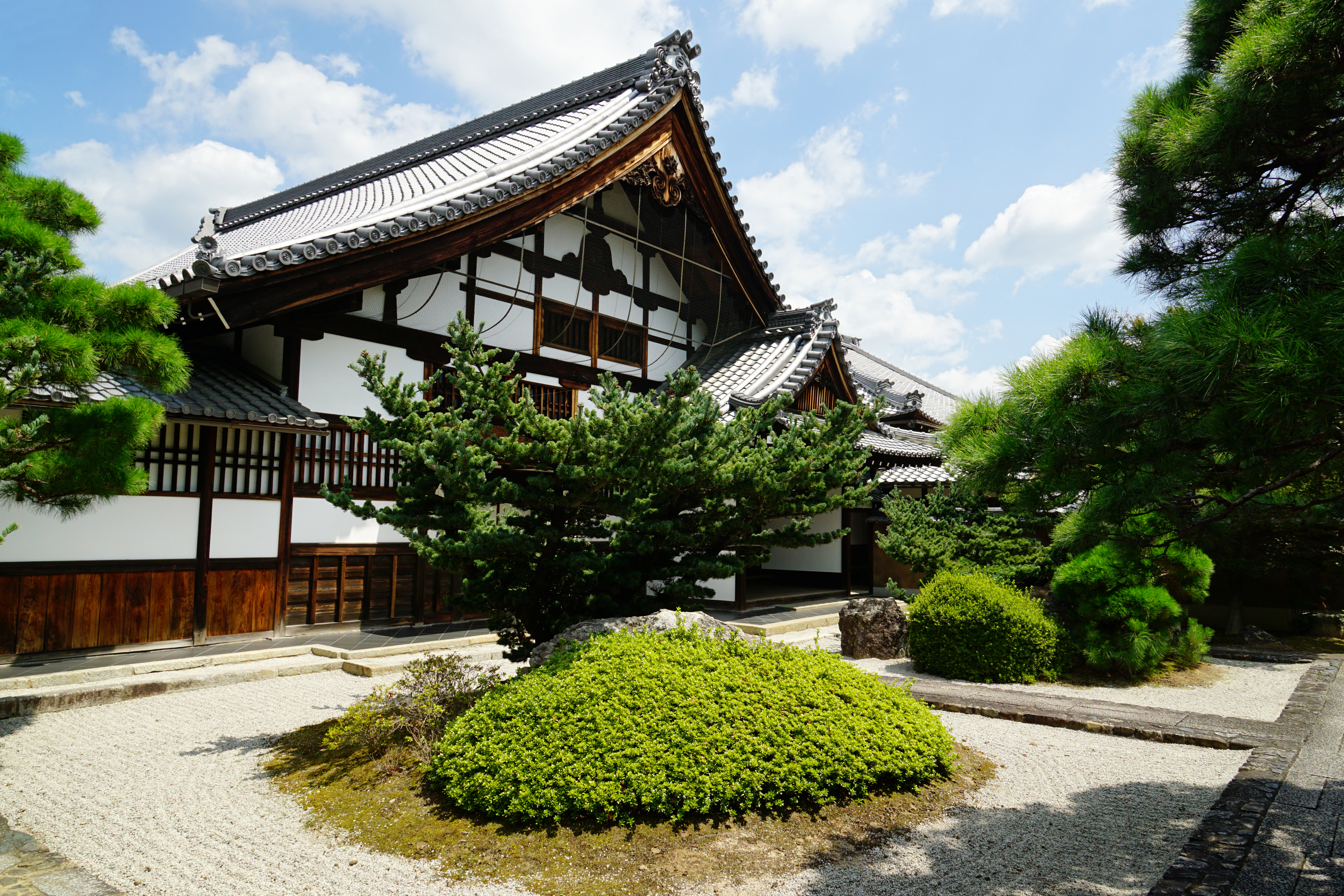 Shōkoku-ji in Kyoto, Kyoto prefecture, Japan